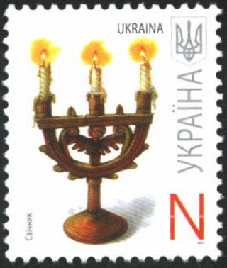 Stamp of Ukraine